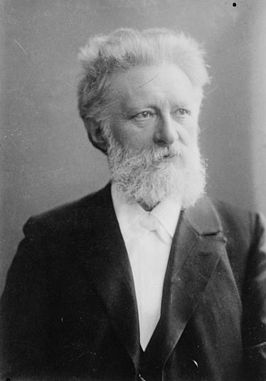 Rudolf Christoph Eucken (1846 – 1926), German philosopher, winner of the 1908 Nobel Prize for Literature